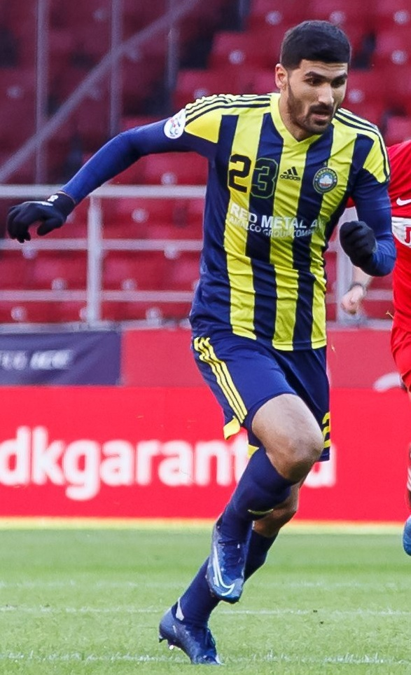 Sherzod Azamov playing for Pakhtakor Tashkent in a friendly game against FC Spartak Moscow.